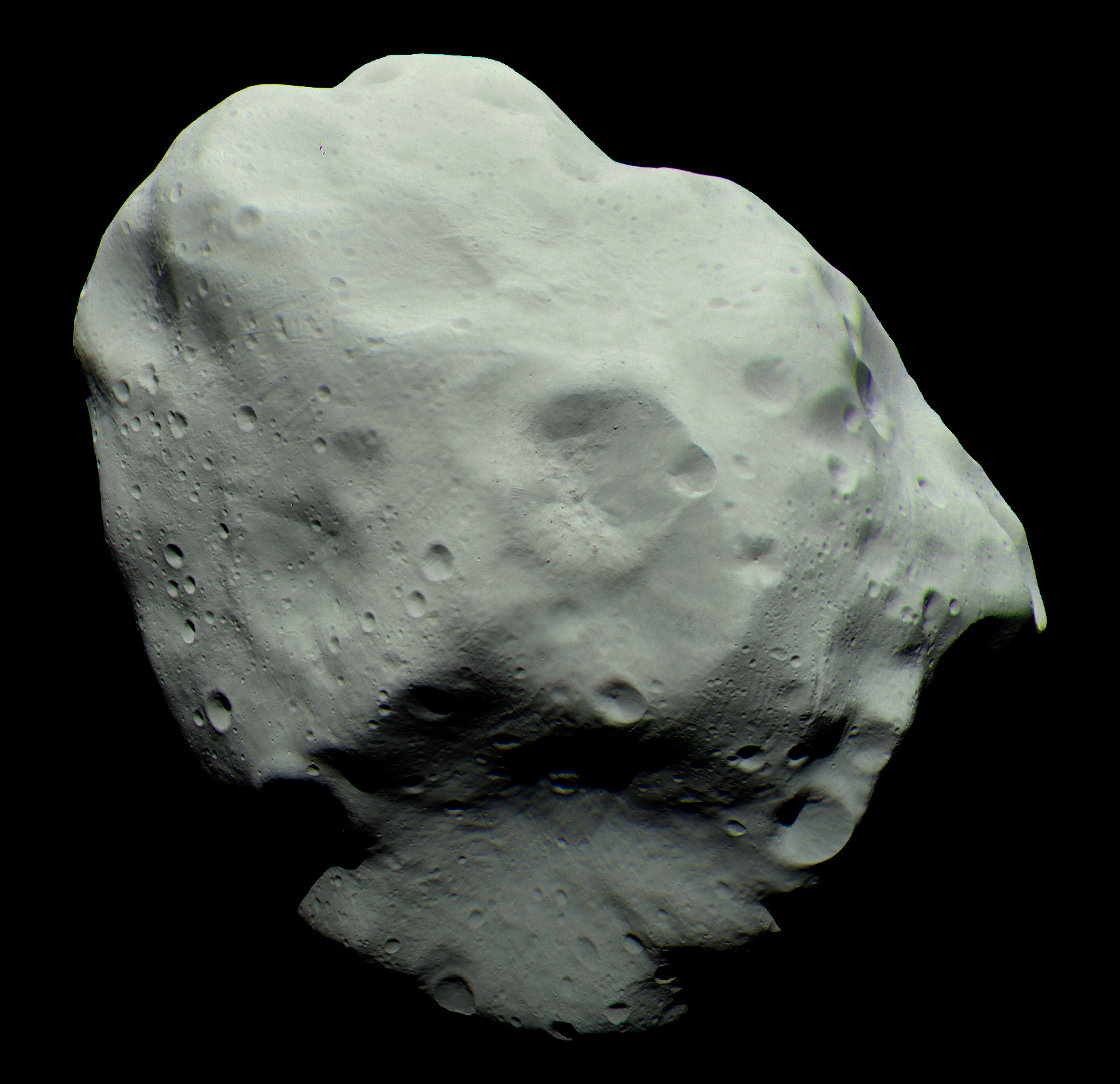 Image of the asteroid en:21 Lutetia assembled using orange, green, and blue filtered images taken by the OSIRIS instrument aboard the Rosetta spacecraft on July 10 2010.